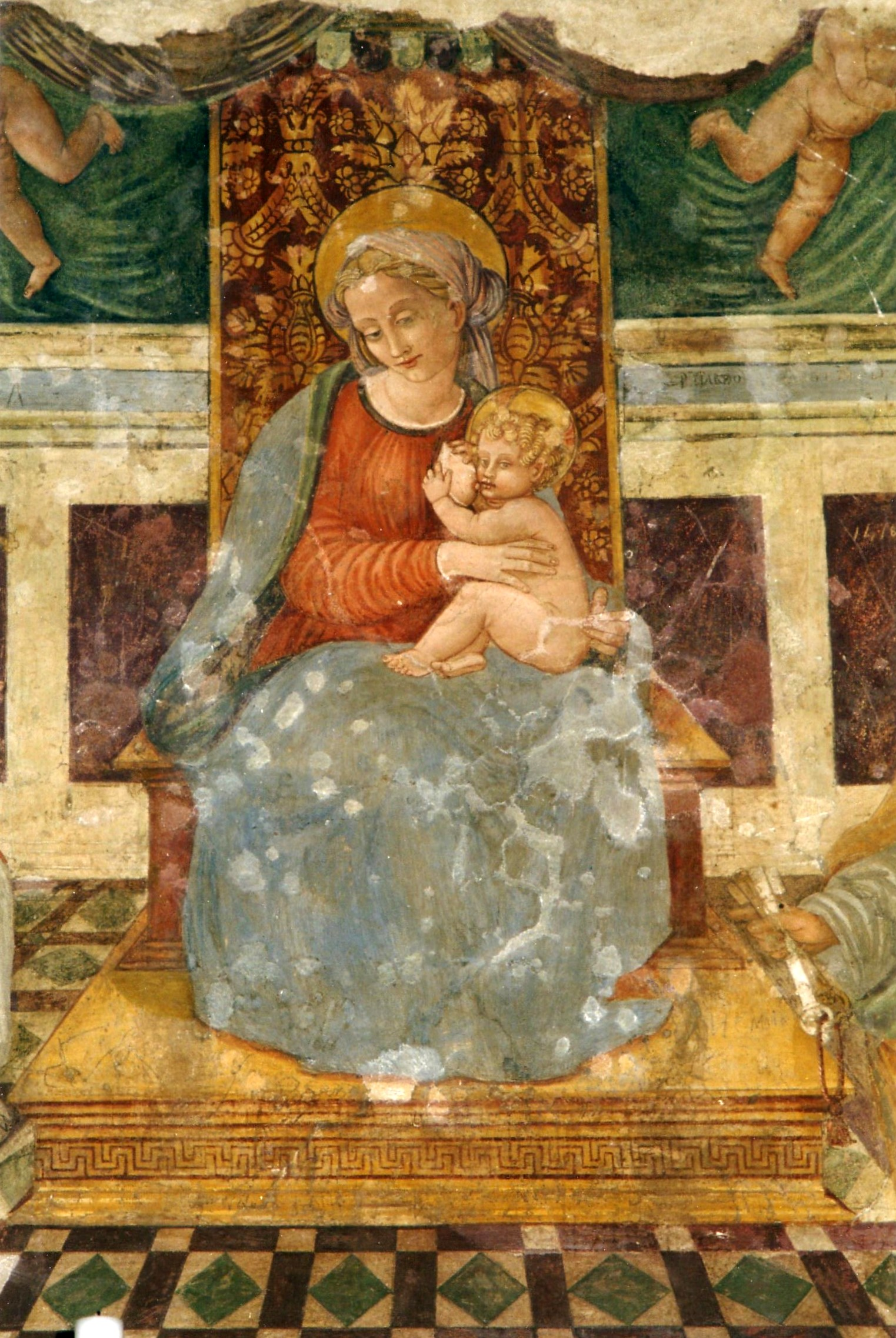 Detail of the fresco on the main altar in Santa Maria al Giglio Church in Montevarchi